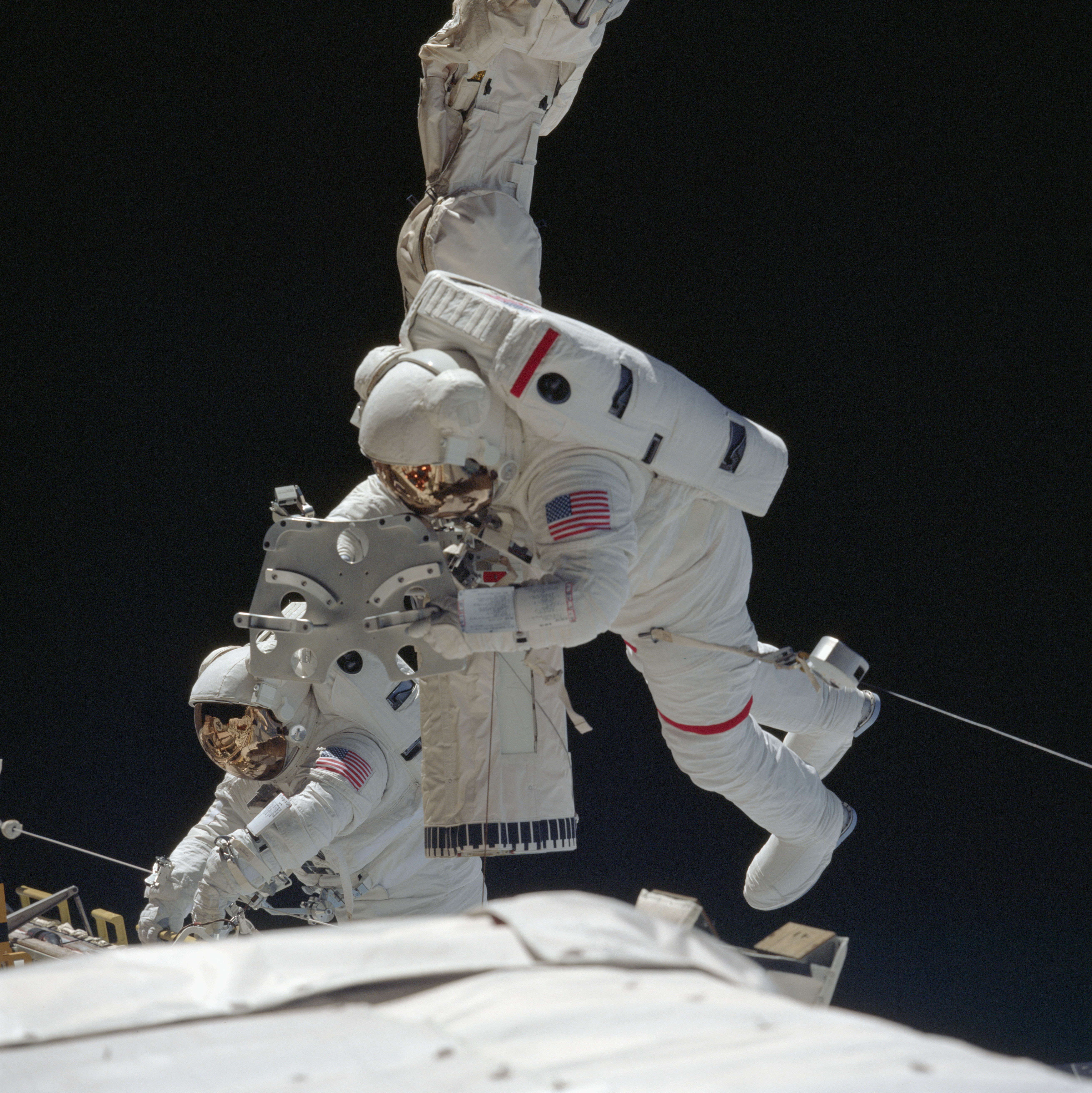 During STS-57 extravehicular activity (EVA), Mission Specialist (MS) and Payload Commander (PLC) G. David Low (foreground) secures portable foot restraint (PFR) (manipulator foot restraint (MFR)) to the remote manipulator system (RMS) end effector using a PFR attachment device (PAD). MS3 Peter J.K. Wisoff performs operations next to Low at the stowed European Retrievable Carrier (EURECA). This EVA, designated Detailed Test Objective (DTO) 1210, included evaluation of procedures being developed to service the Hubble Space Telescope (HST) on mission STS-61 in December 1993. The scene is backdropped against the blackness of space with Endeavour's, Orbiter Vehicle (OV) 105's, payload bay (PLB) and payloads appearing in the foreground.